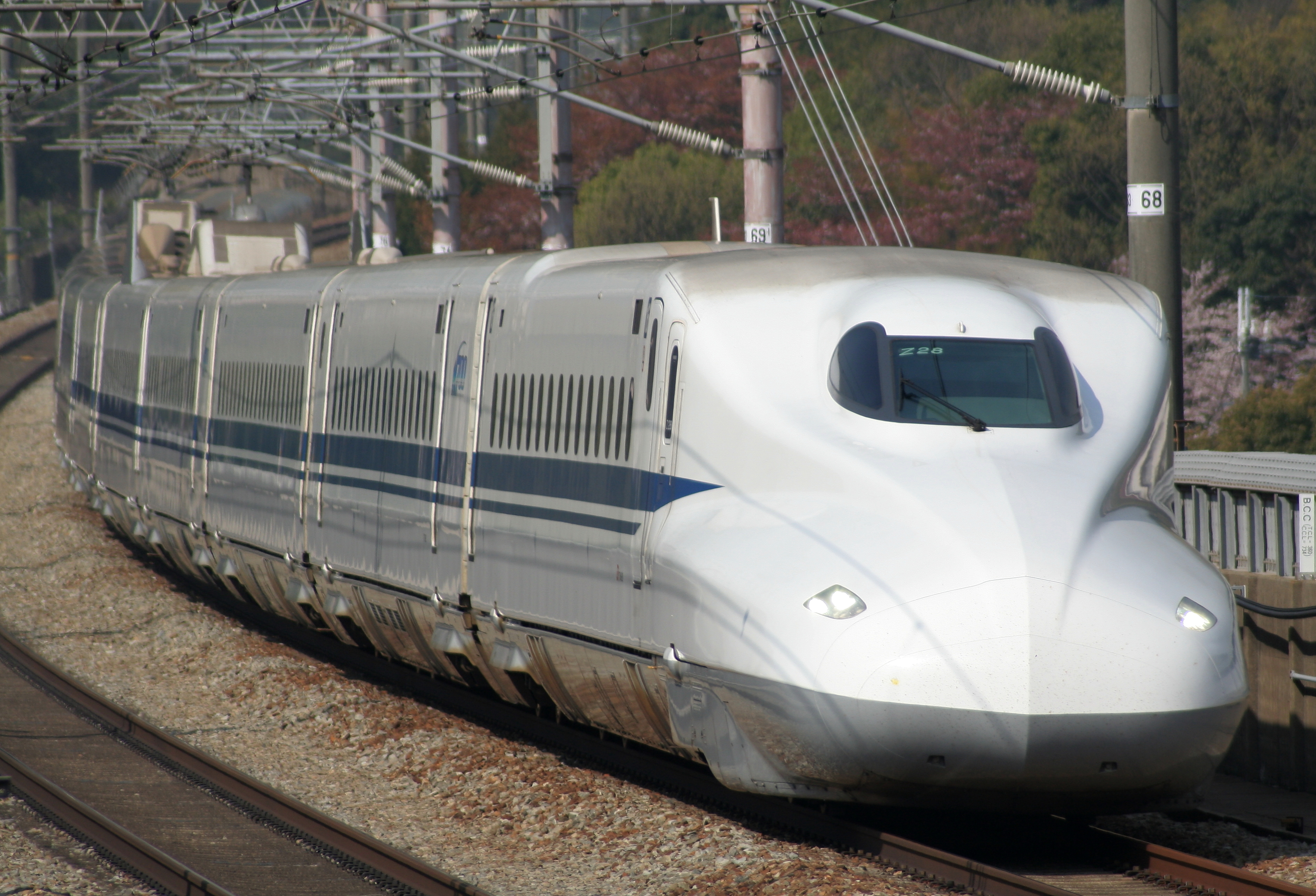 JR Central N700 series shinkansen set Z28 on the Sanyo Shinkansen between Okayama and Aioi stations